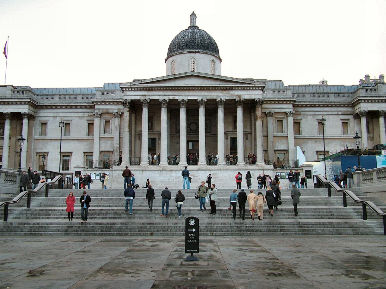 A head-on shot from Trafalgar Square of the National Gallery in London.